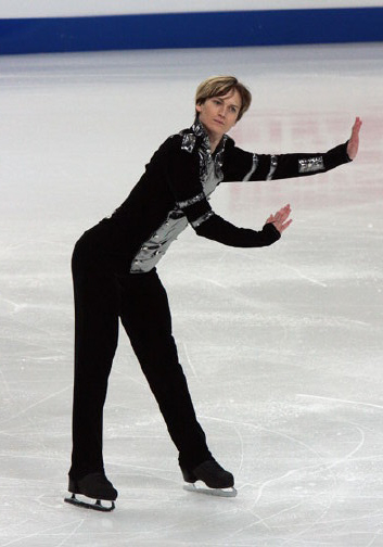 Kristoffer BERNTSSON (SWE) at the 2009 European Figure Skating Championships